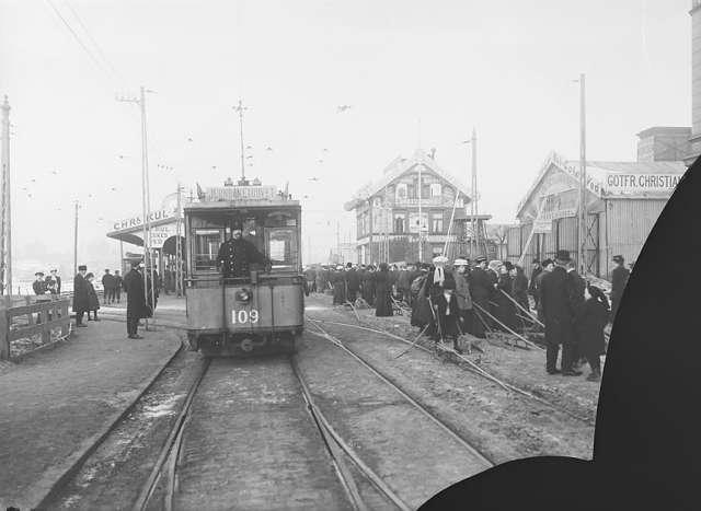 Kristiania Elekstriske Sporvei Tram no. 109 at Majorstuen in Oslo, Norway.